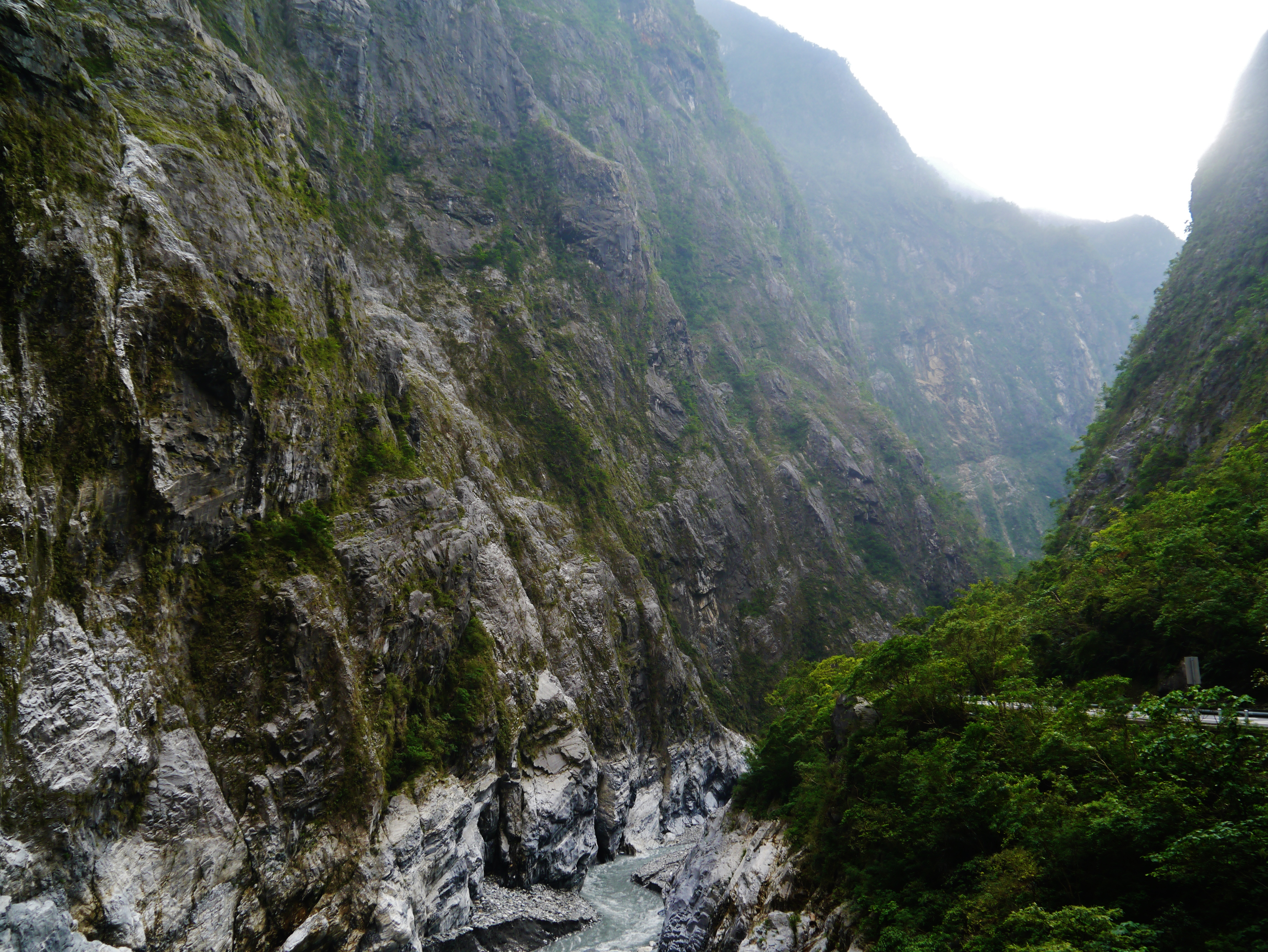 Taroko Gorge, Hualien County, Taiwan